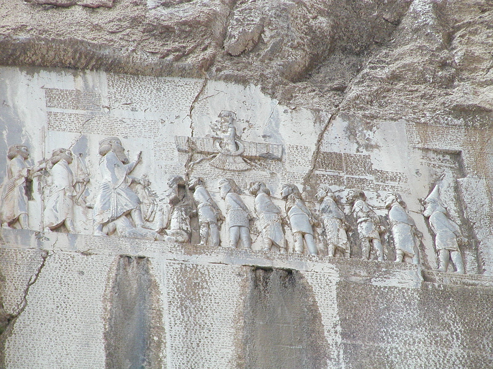 Behistun Inscription, describing conquests of Darius the Great in Old Persian, Elamite, and Babylonian languages. These reliefs and texts are engraved in a cliff on Mount Behistun (present Kermanshah Province, Iran).